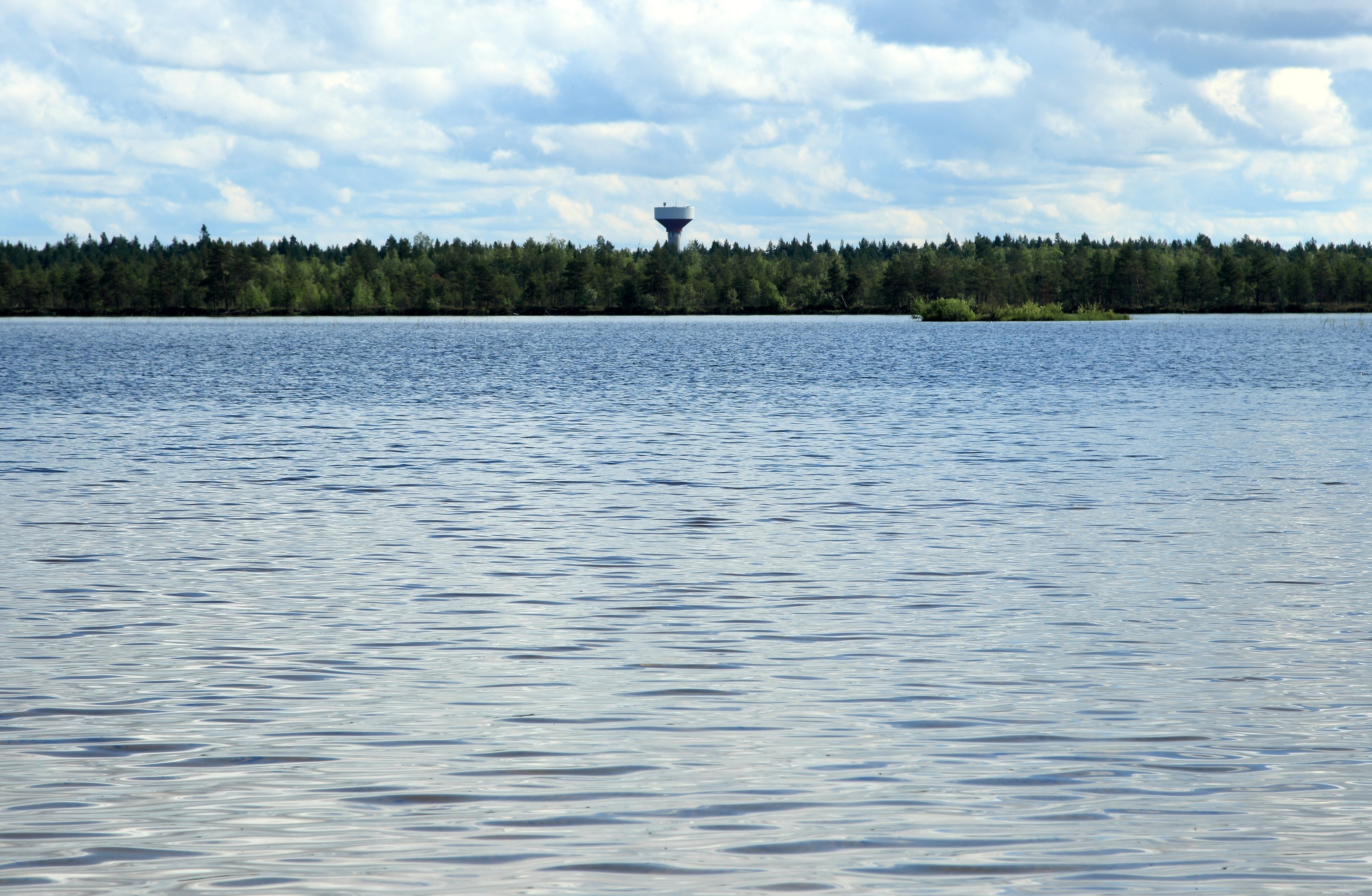 Lake Papinjärvi in Oulu.